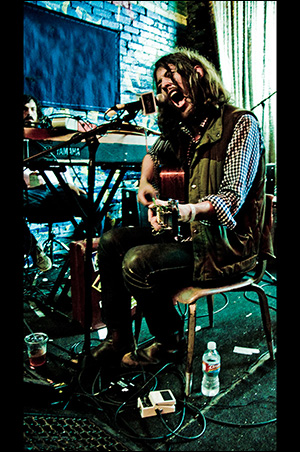 Fleet Foxes: live at SXSW in Austin, TX